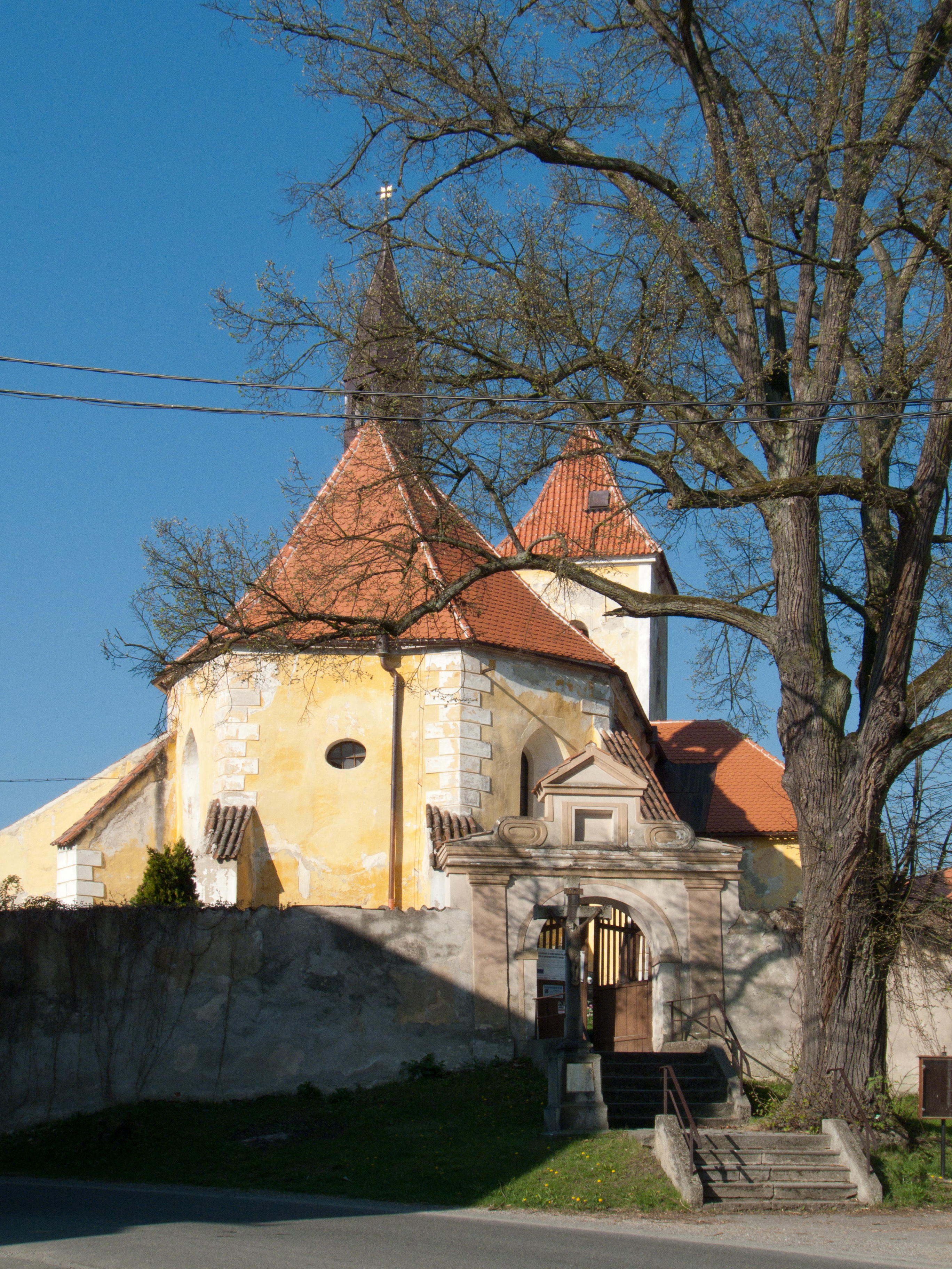 Assumption Church in the village of Jinín, Strakonice District, Czech Republic.